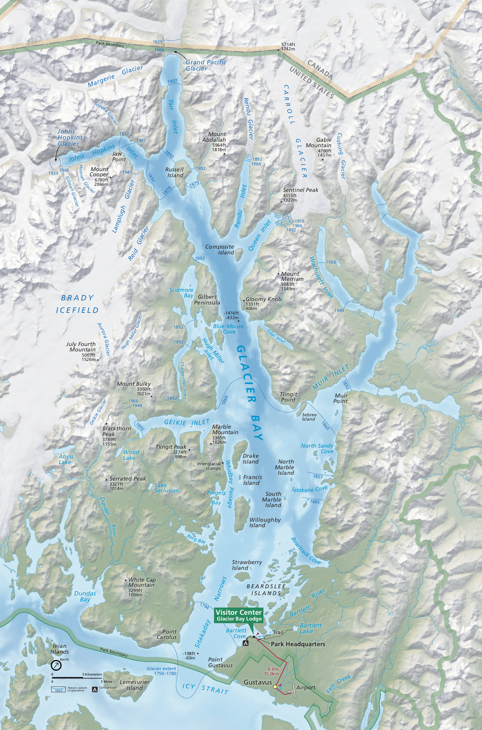 Glacier Bay detail map, zoomed in on Glacier Bay proper and showing the main visitor and cruise ship areas in additional detail.